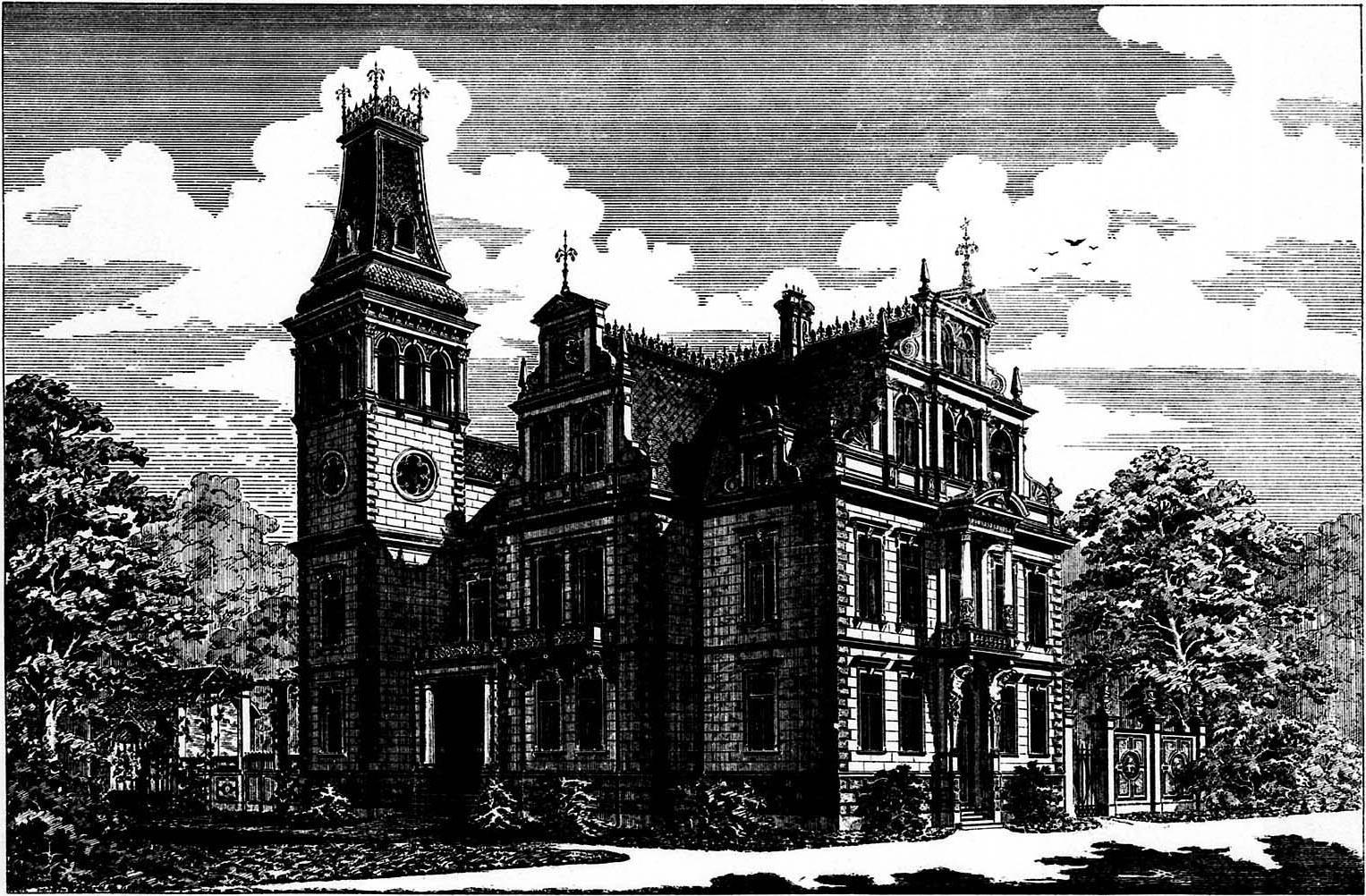 Villa Dr. Klaevemann, Oldenburg.